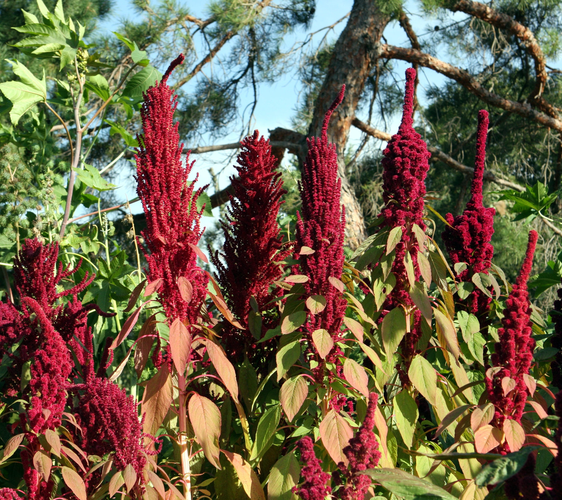 Amaranthus flowering